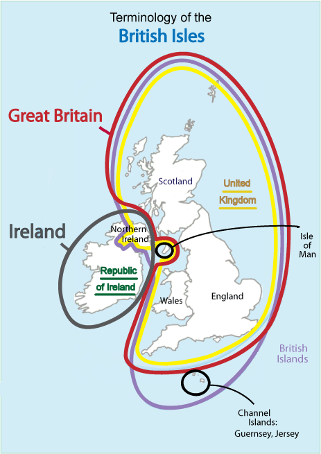 Original work, indended to replace the Euler diagram that includes the Channel Islands.